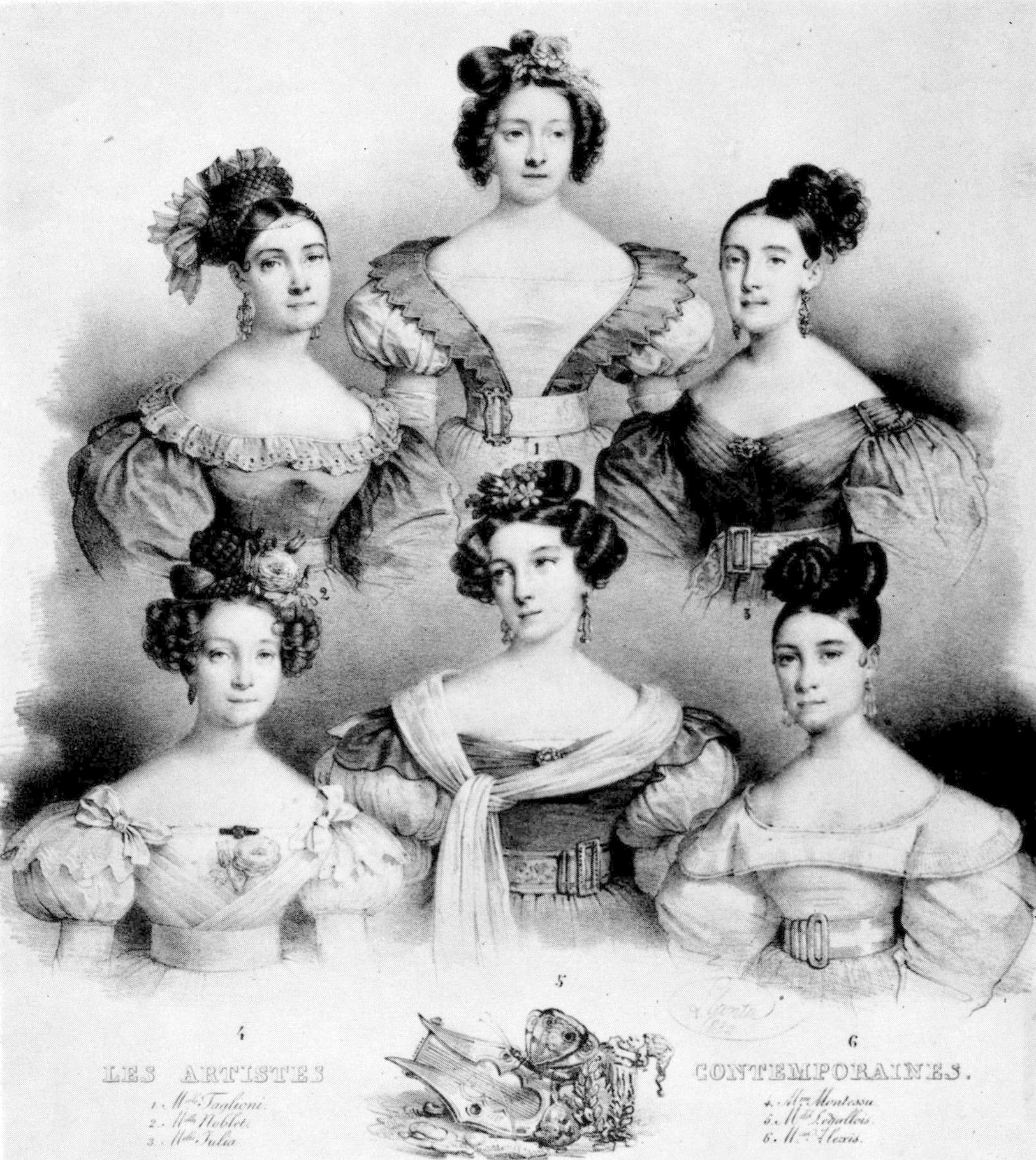 Lithograph by Lemercier from drawings by Llanta of the Prima Ballerinas of the Paris Opera, 1832.Clockwise from top left - (2) Lise Noblet, (1) Marie Taglioni, (3) Melle Julia [de Varennes], (6) Madame Alexis Dupont (Félicité Noblet), (5) Amélie Legallois, and (4) Pauline Montessu. (Mrlopez2681).